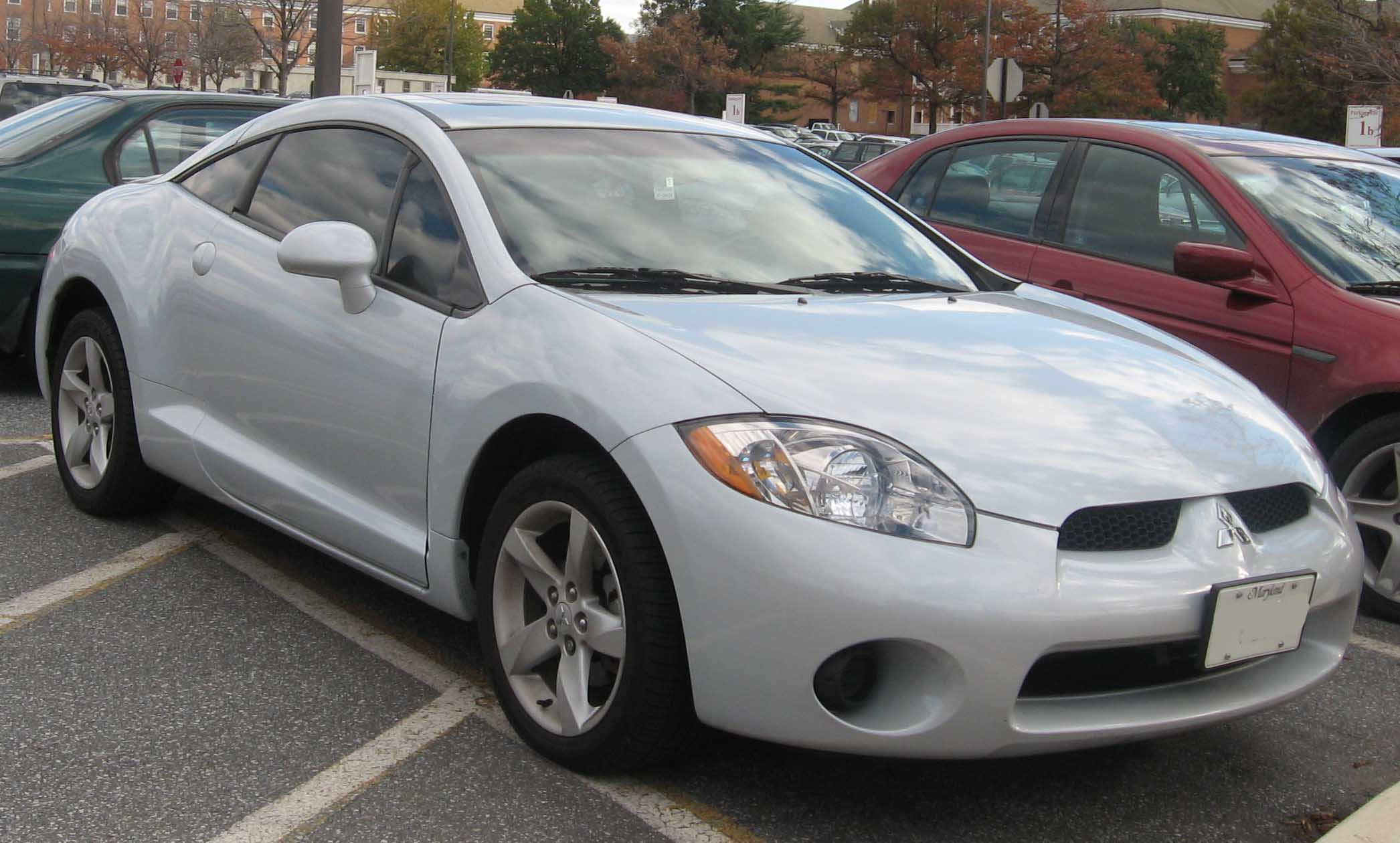 2006-2008 Mitsubishi Eclipse photographed in College Park, Maryland, USA.